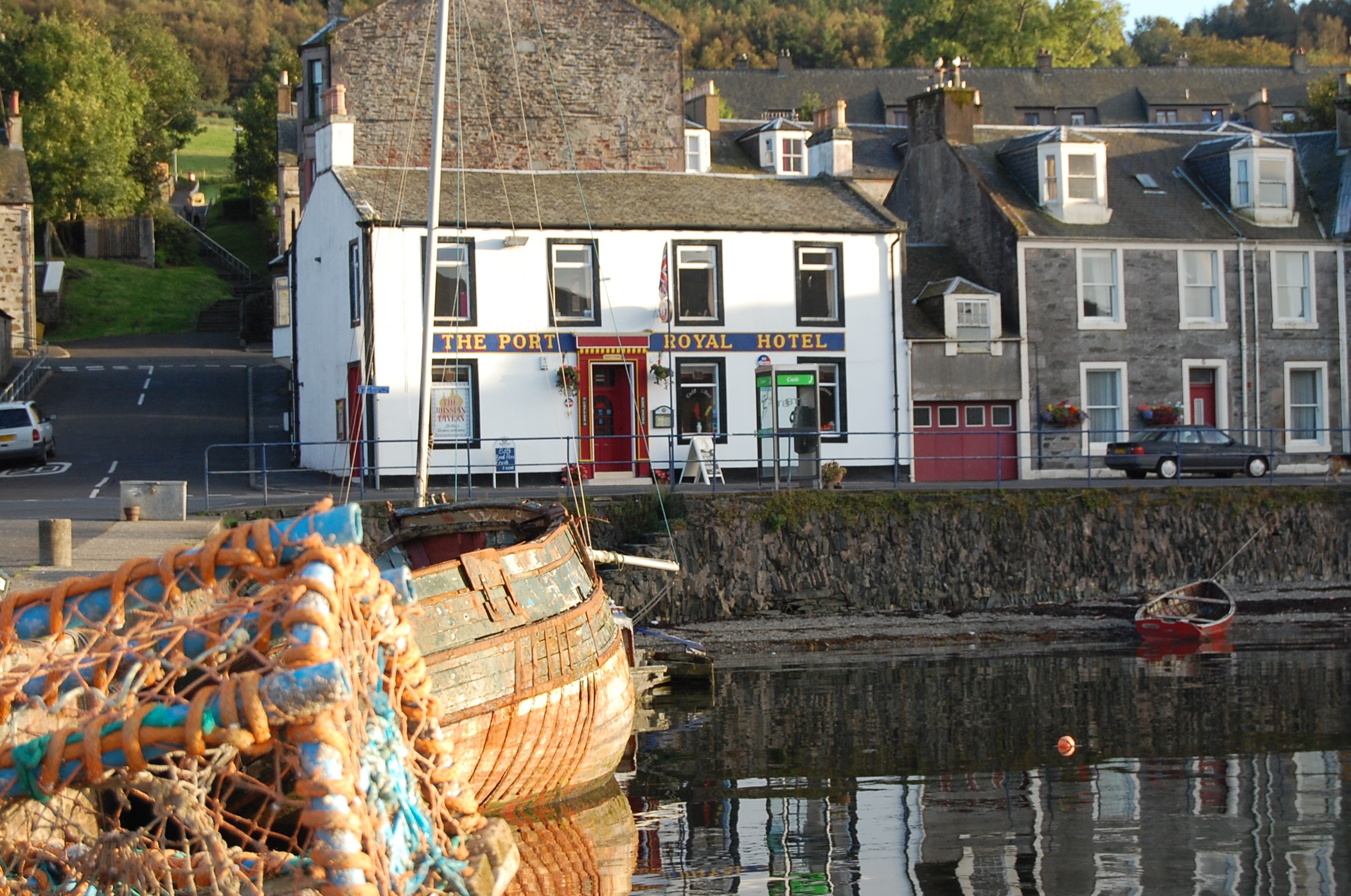 The Famous Russian Tavern is housed in this three hundred year old village inn, The Port Royal, on the seashore at Port Bannatyne on the unspoilt Scottish Isle of Bute, PA20 0LW Run by a Russian family for ten years the Tavern has a high reputation for serving the seafood landed on the pier just outside, fine Russian specialities, local Real Ales direct from the cask, and a wide selection of imported Russian beers, wines and vodkas. There are four inexpensive guestrooms. Port Bannatyne Marina is just 50 metres and Port Bannatyne Golf Course 100 metres. Count Nikolai Tolstoy on a weekend visit declared "This is the finest Beef Strogonoff I have tasted...EVER!" Reputedly in the top five affordable restaurants in Scotland. The scenery from the Tavern across the water to the Argyll hills is truly stunning. Clientel: Many notable personalities have stopped by this rmote spot: Sir Paul McCartney, Mikhael Gorbachov, Roger Taylor, Colin Clydesdale, Count Nikolai Tolstoy, Madonna, politicians and sports-stars, artists and writers, musicians and actors, serious diners from France and Italy. Reviews, Press articles etc